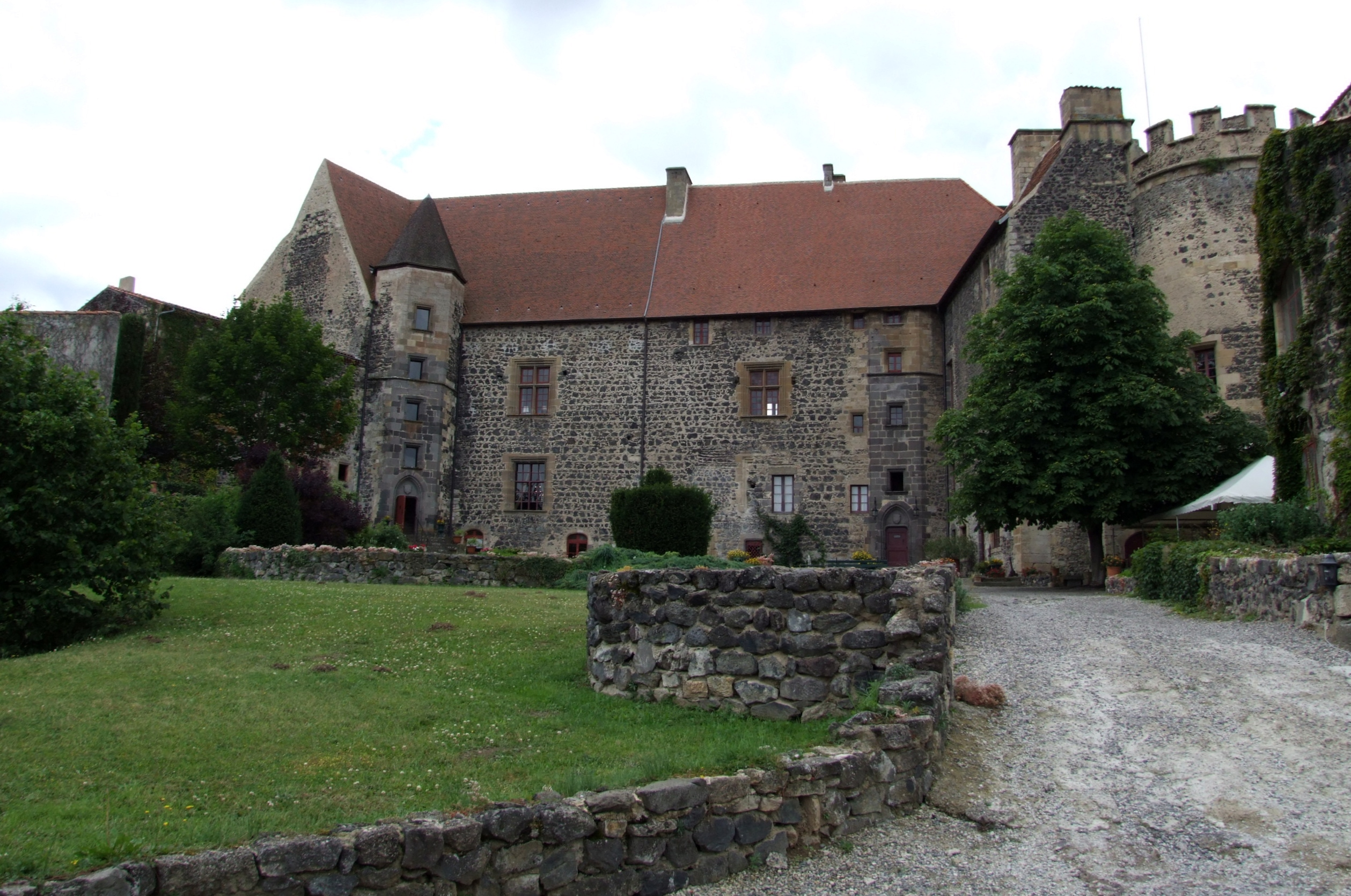 Saint-Saturnin, Puy-de-Dôme, FRANCE